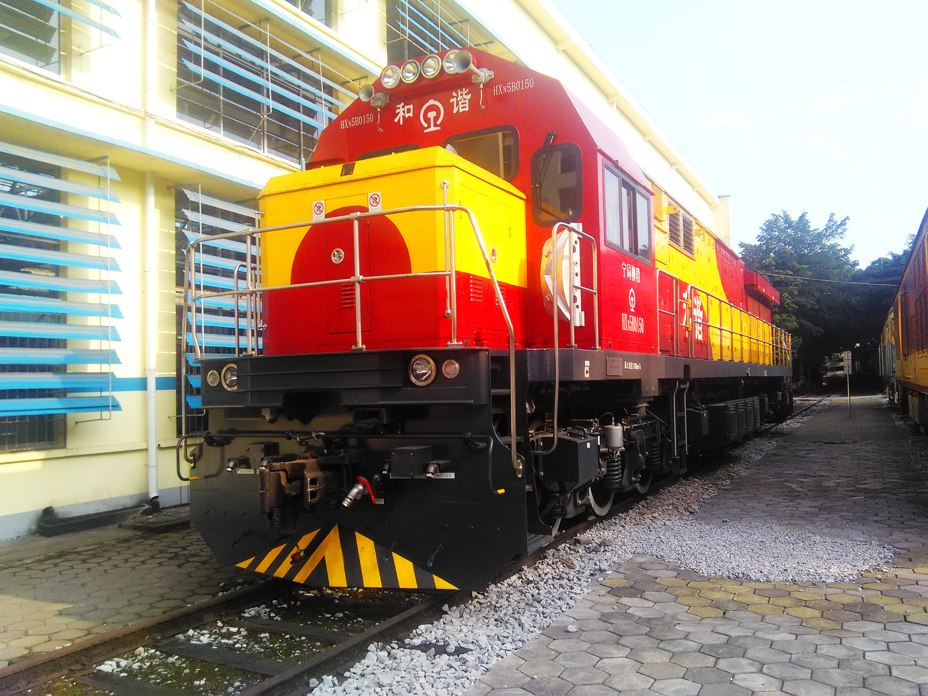 China Railways HXN5B 0150 in Liuzhou Locomotive Depot, Nanning Railway Bureau.